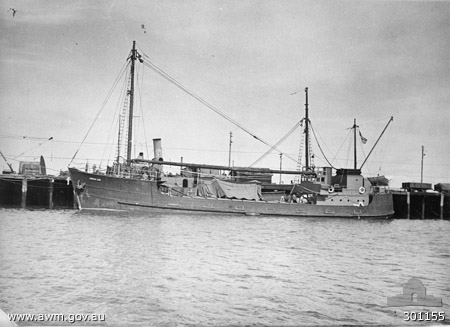 AWM Caption: PORT SIDE VIEW OF THE TRAWLER PATRICIA CAM PRIOR TO HER COMMISSIONING BY THE RAN AS AN AUXILIARY MINESWEEPER.